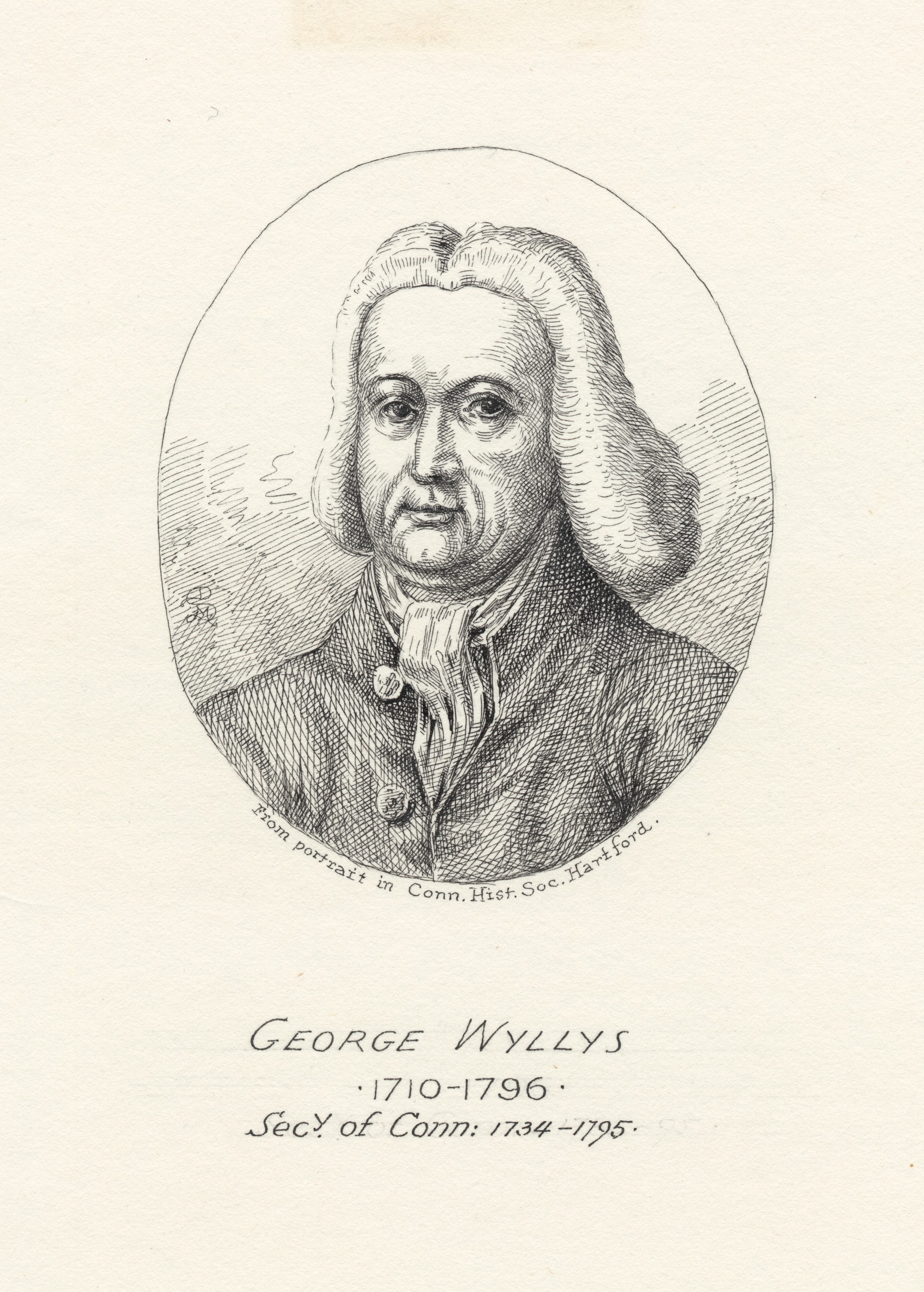 Title from Calendar of Emmet Collection. Citation/reference : EM131